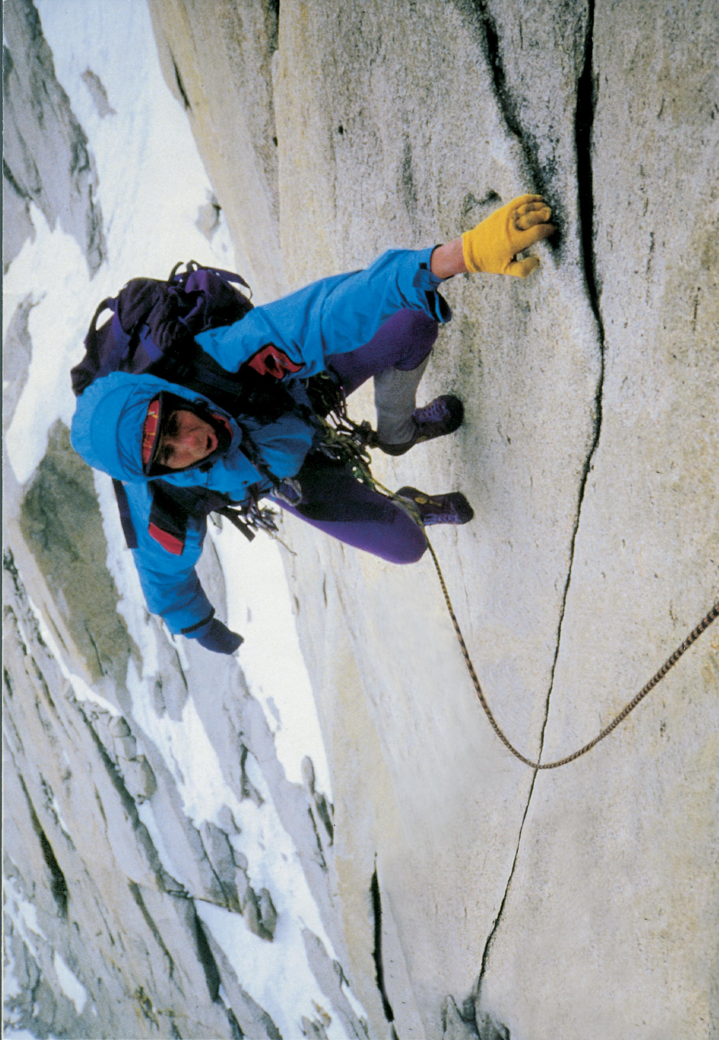 Paul Pritchard on the First Ascent of 'El Caballo de Diablo'.